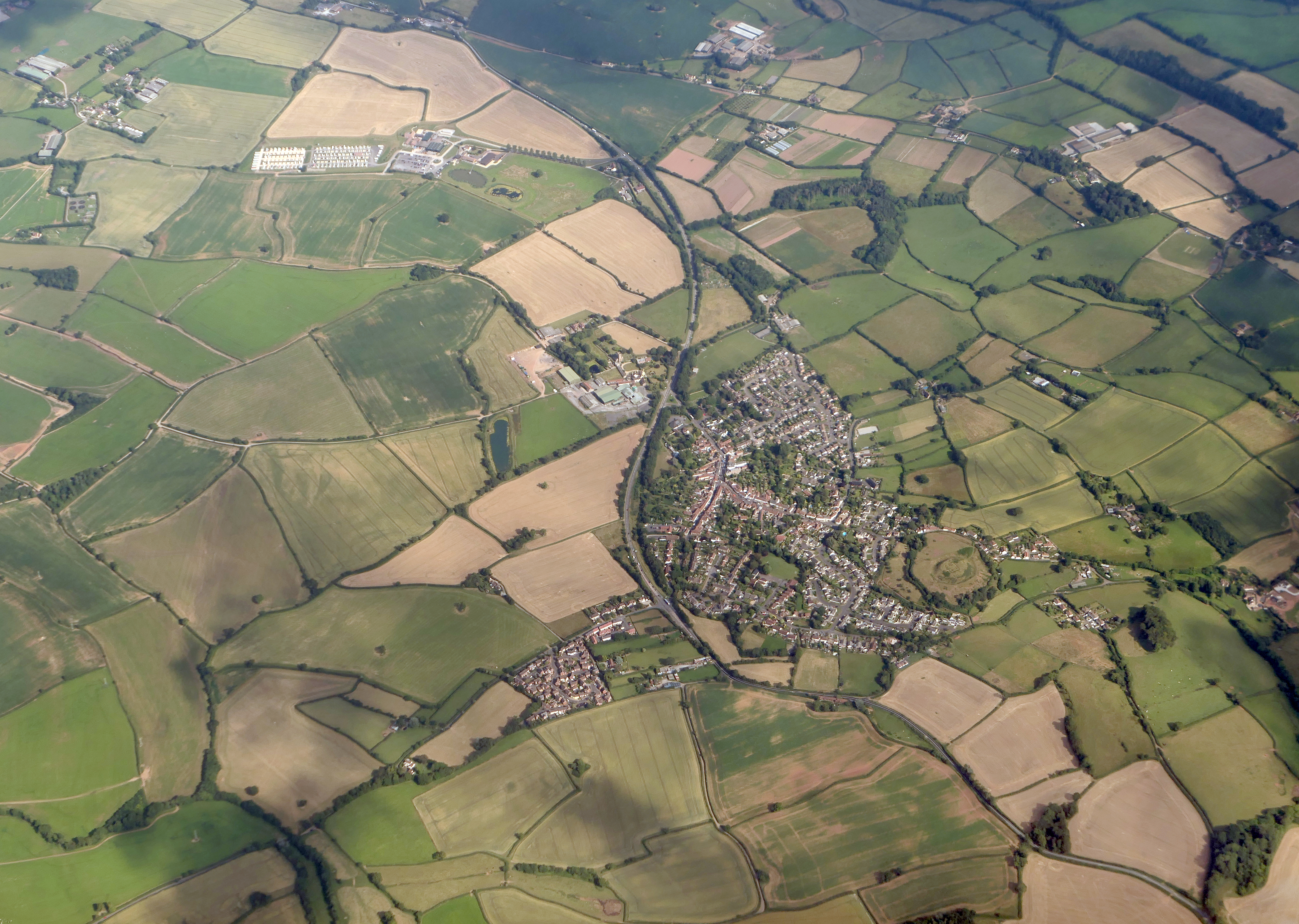 An aerial photograph of Nether Stowey in England.